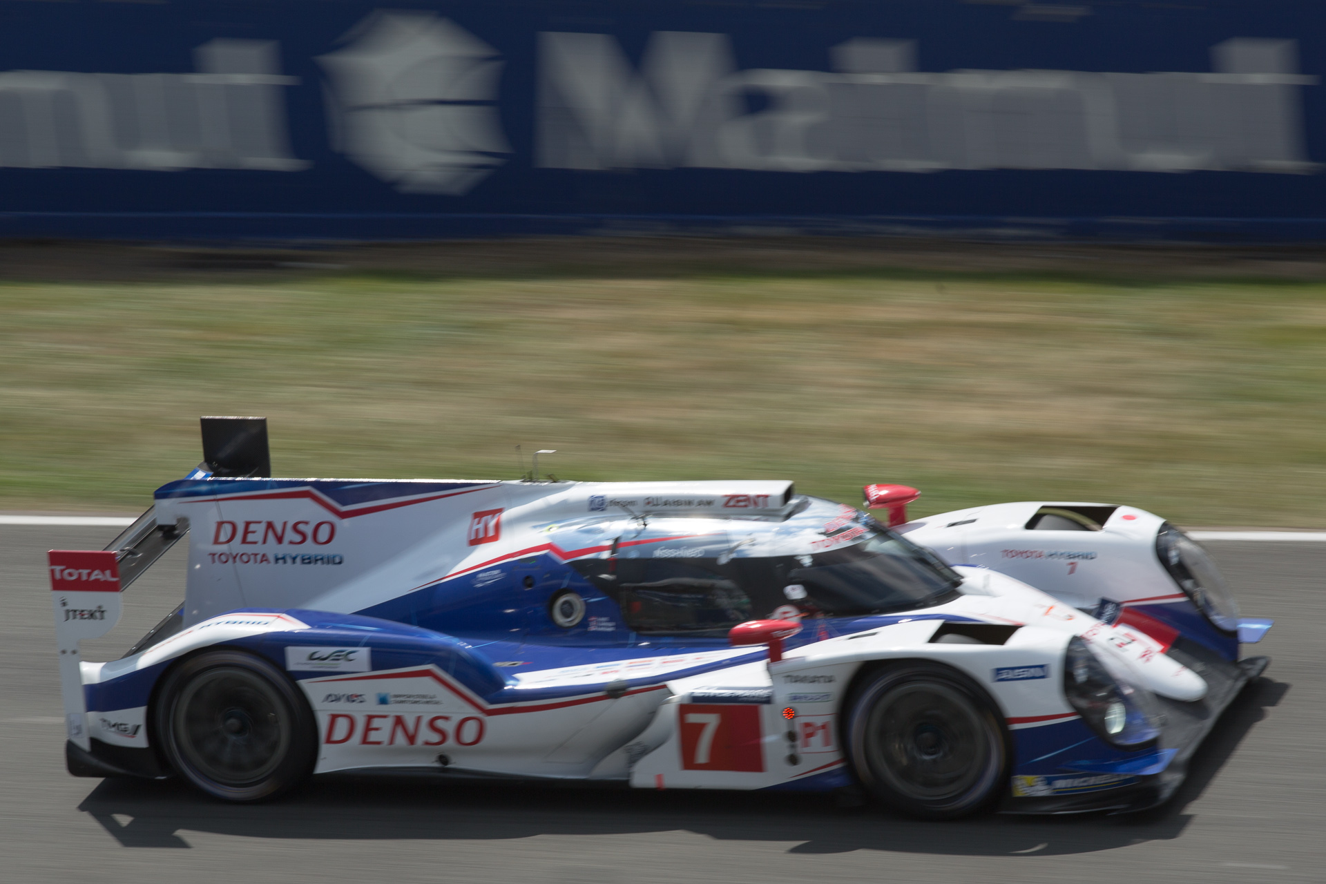 The No. 7 Toyota TS040 Hybrid at the 2014 24 Hours of Le Mans